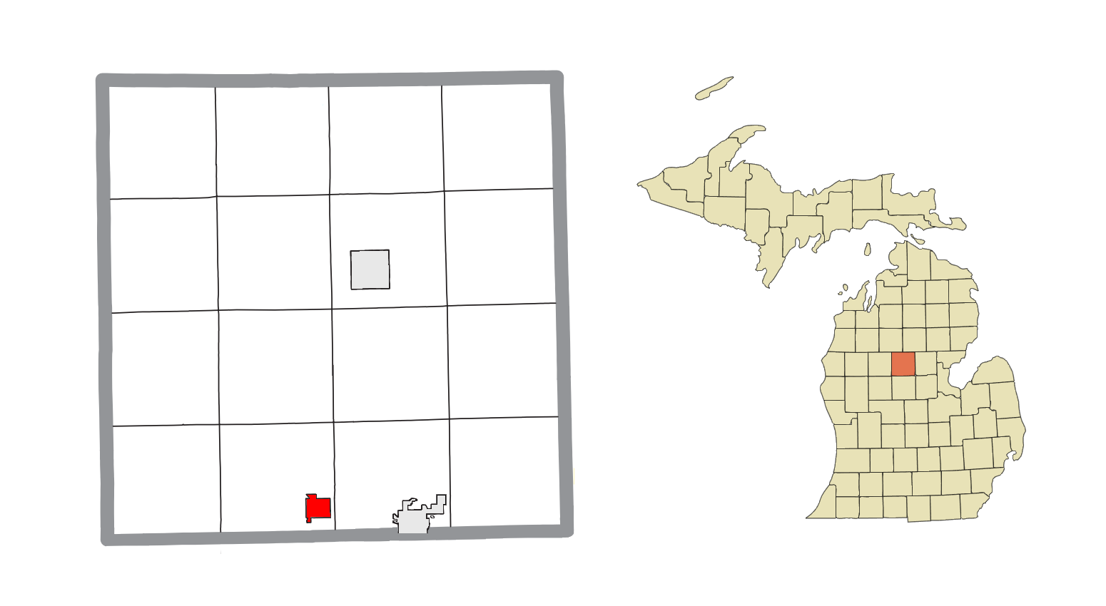 Farwell, MI